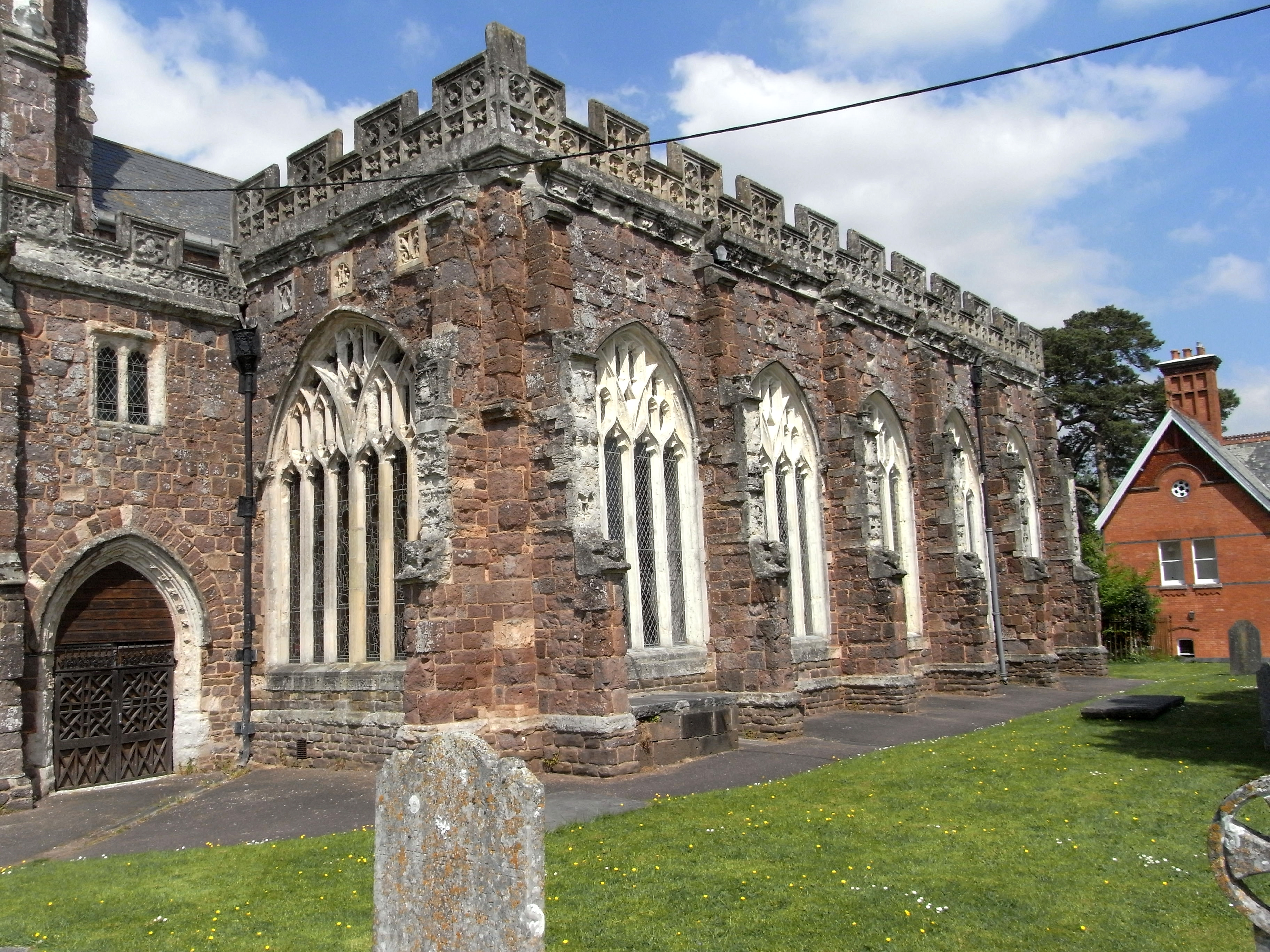 "Lane Chapel", south aisle of St Andrew's Church, Collumpton, Devon.